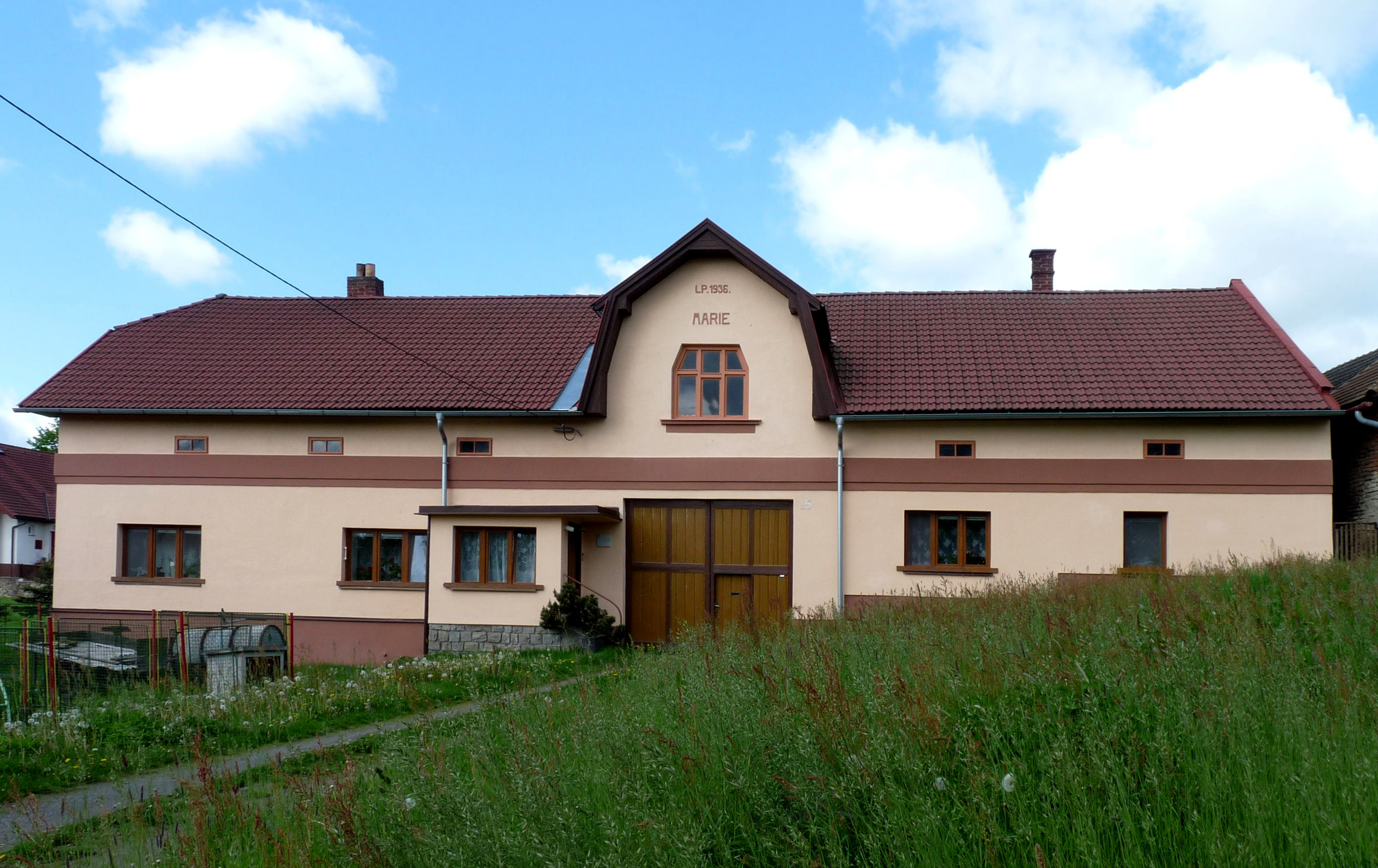 House No 5 in the village of Malá Losenice, Havlíčkův Brod District, Vysočina Region, Czech Republic.